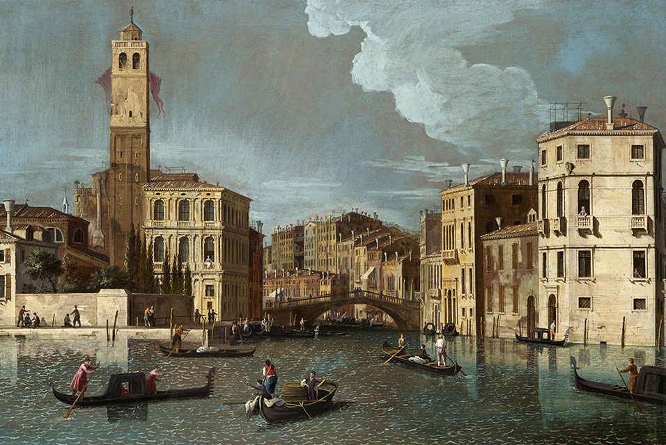 Venise: Le Grand Canal à l’entrée du Cannaregio avec l’Église San Geremia et le Palais Labia by Bernardo Canal, 72.3 x 111 cm, oil on canvas